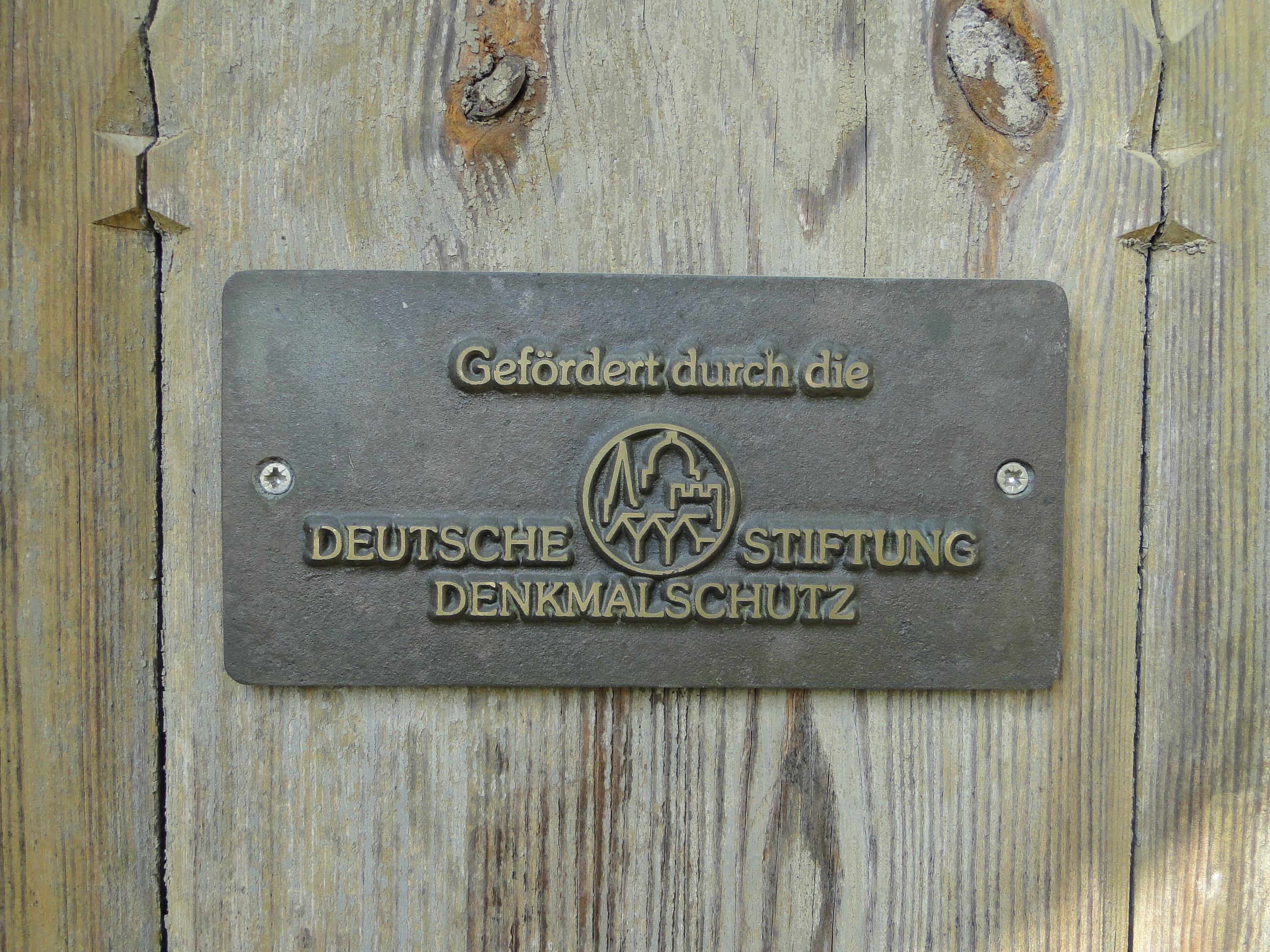 Sign of the Deutsche Stiftung Denkmalschutz on the church in Müsselmow, district Ludwigslust-Parchim, Mecklenburg-Vorpommern, Germany